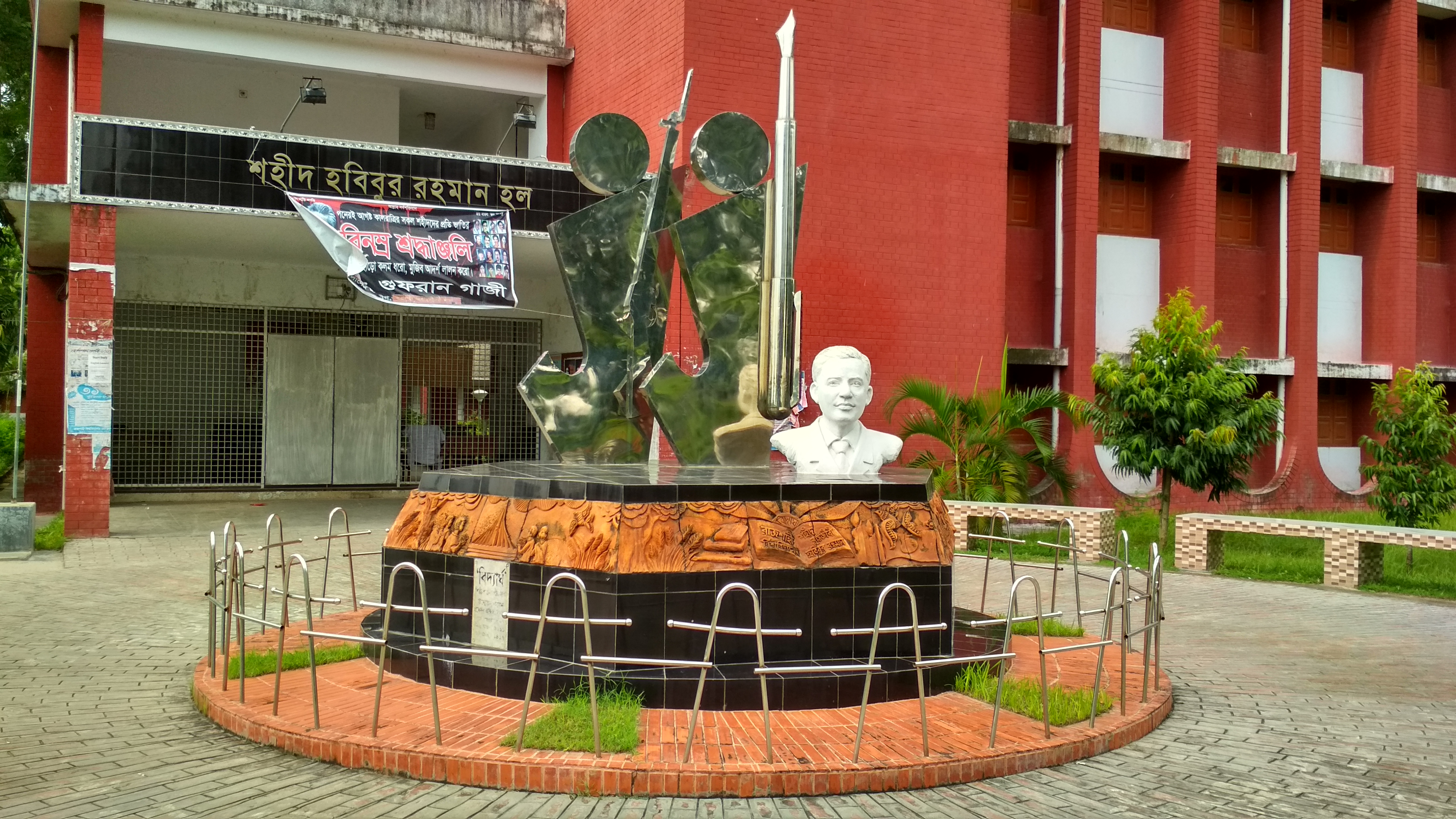 Martyr Habibur Rahman Memorial Sculpture (Bidargho), University of Rajshahi.